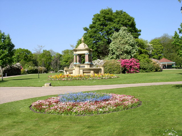 Queens Park Main entrance to the park